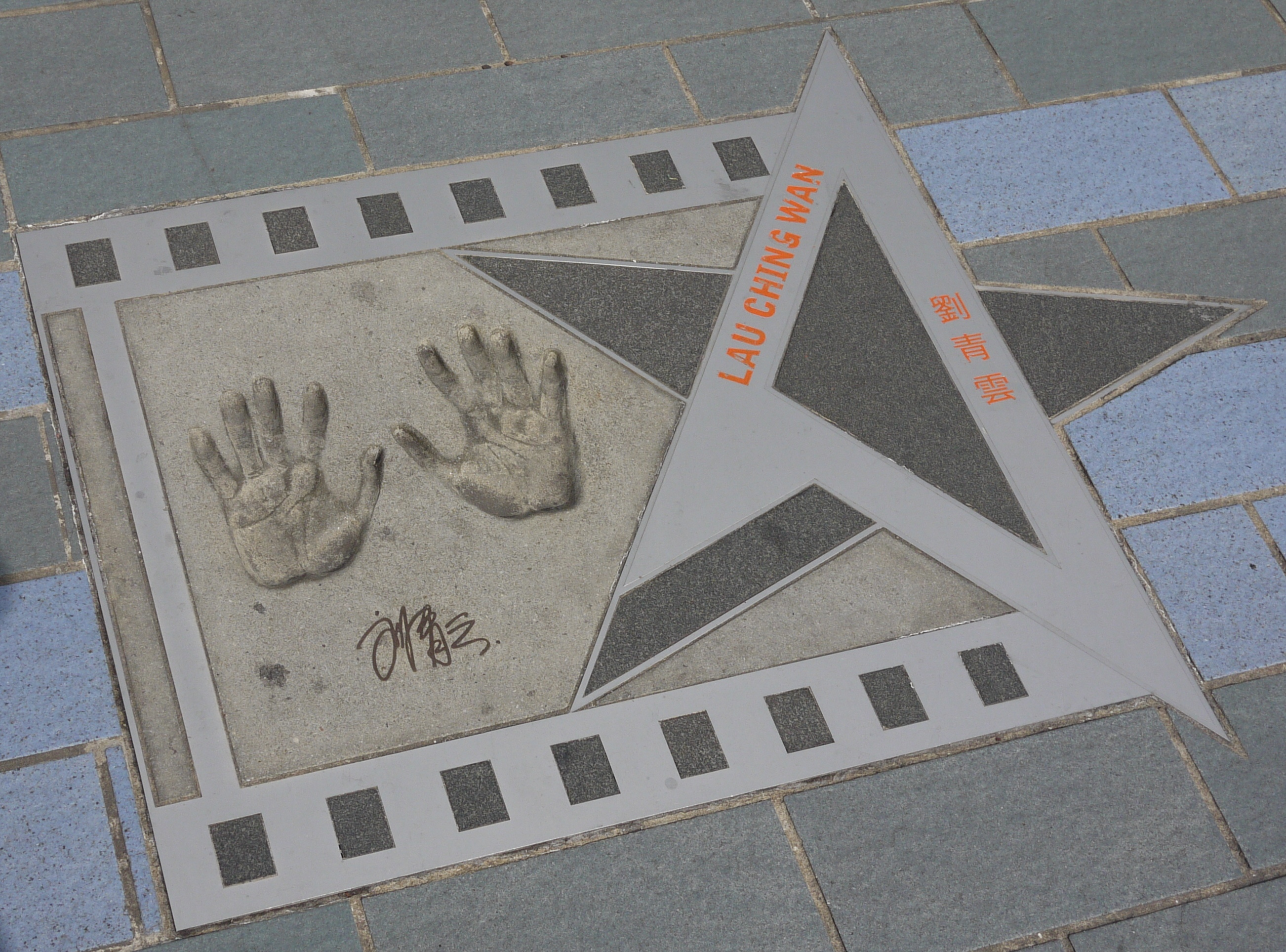 Lau Ching Wan, Avenue of Stars Hong Kong